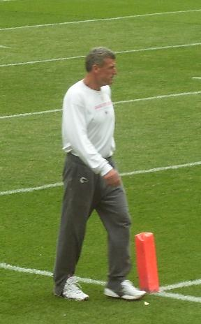 Tim Krumrie, defensive line coach of the Kansas City Chiefs and former defensive lineman of the Cincinnati Bengals.